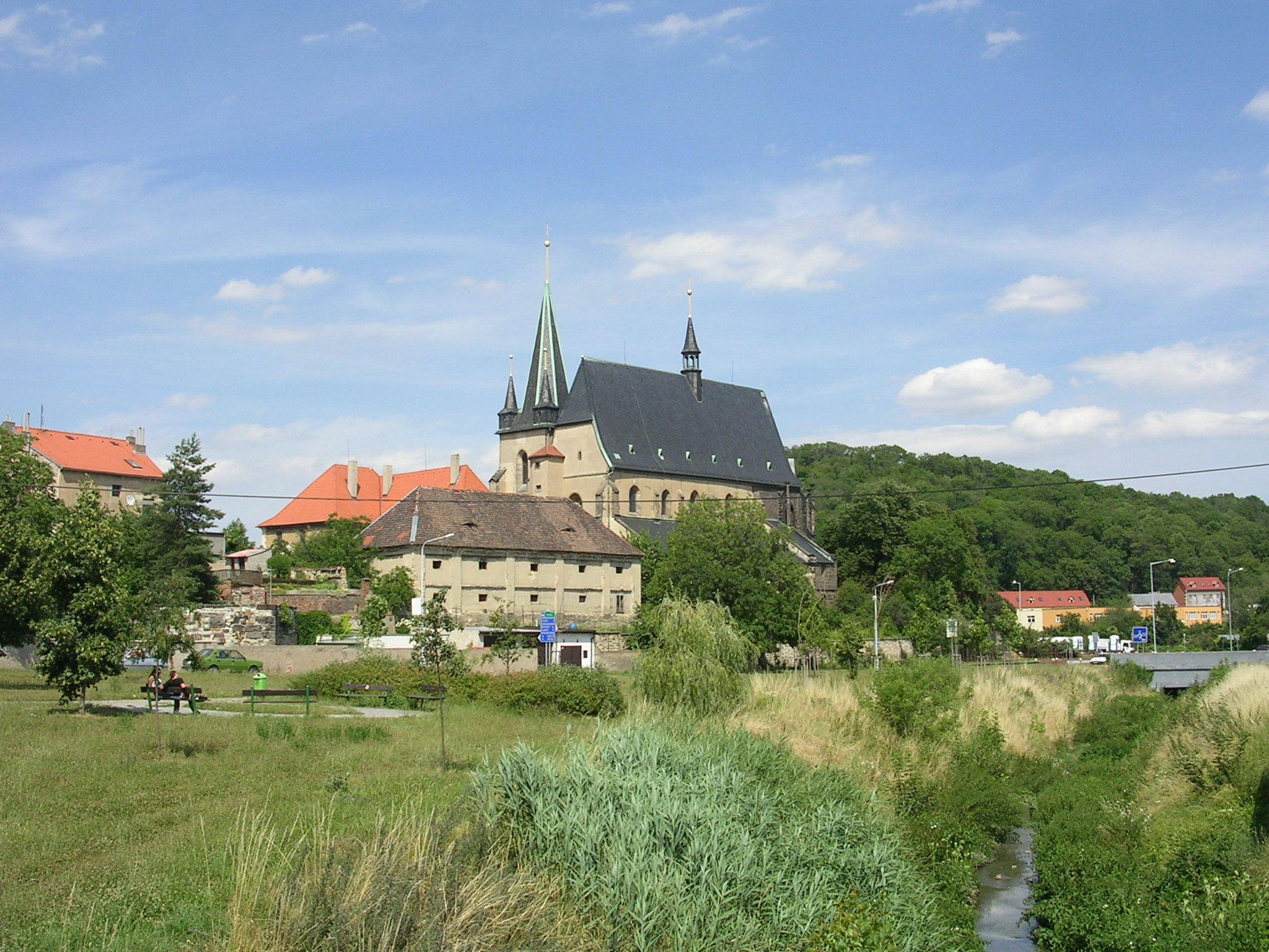 Slaný, Central Bohemian Region, the Czech Republic.